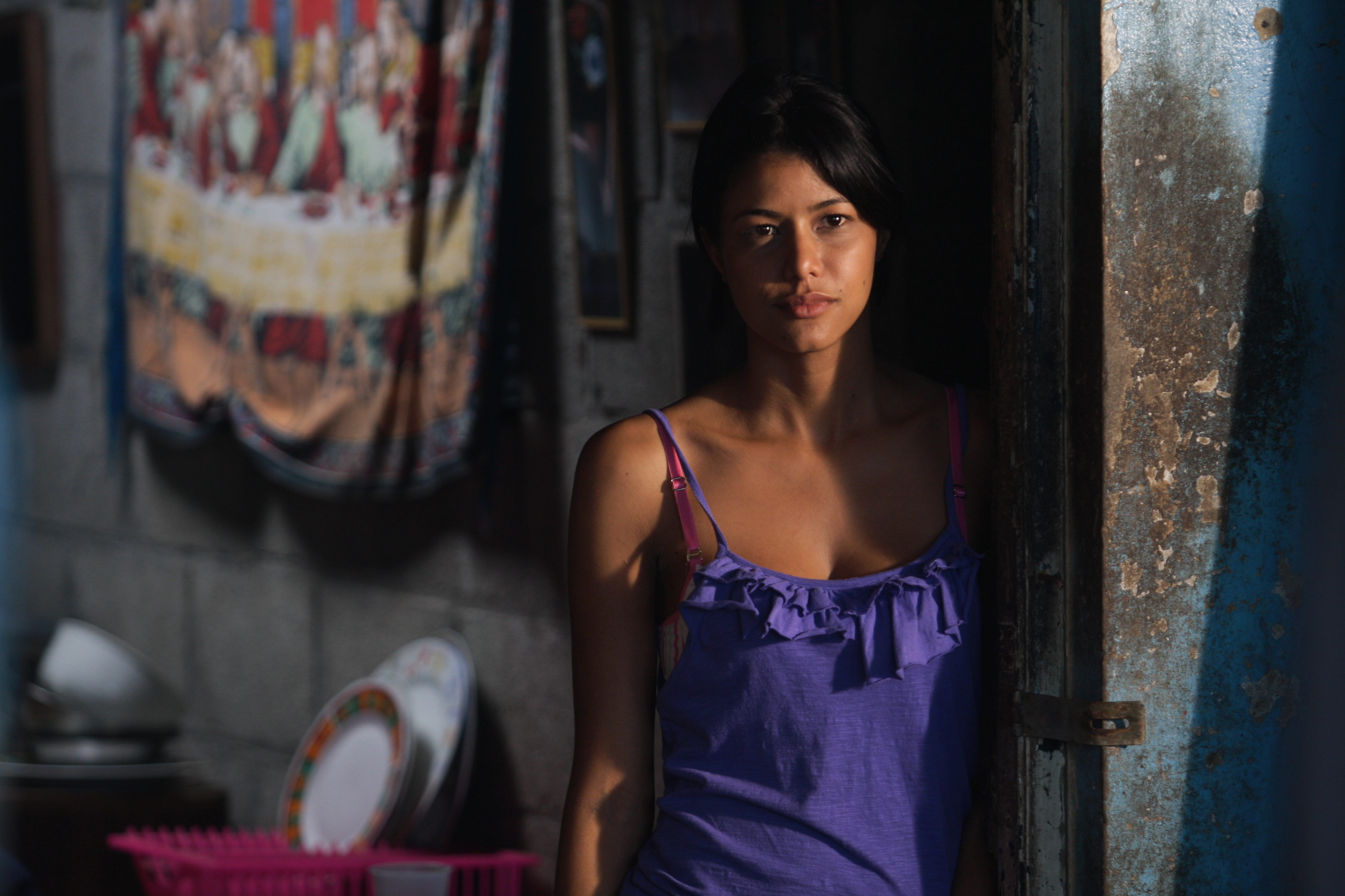 Escena de Affaires étrangéres